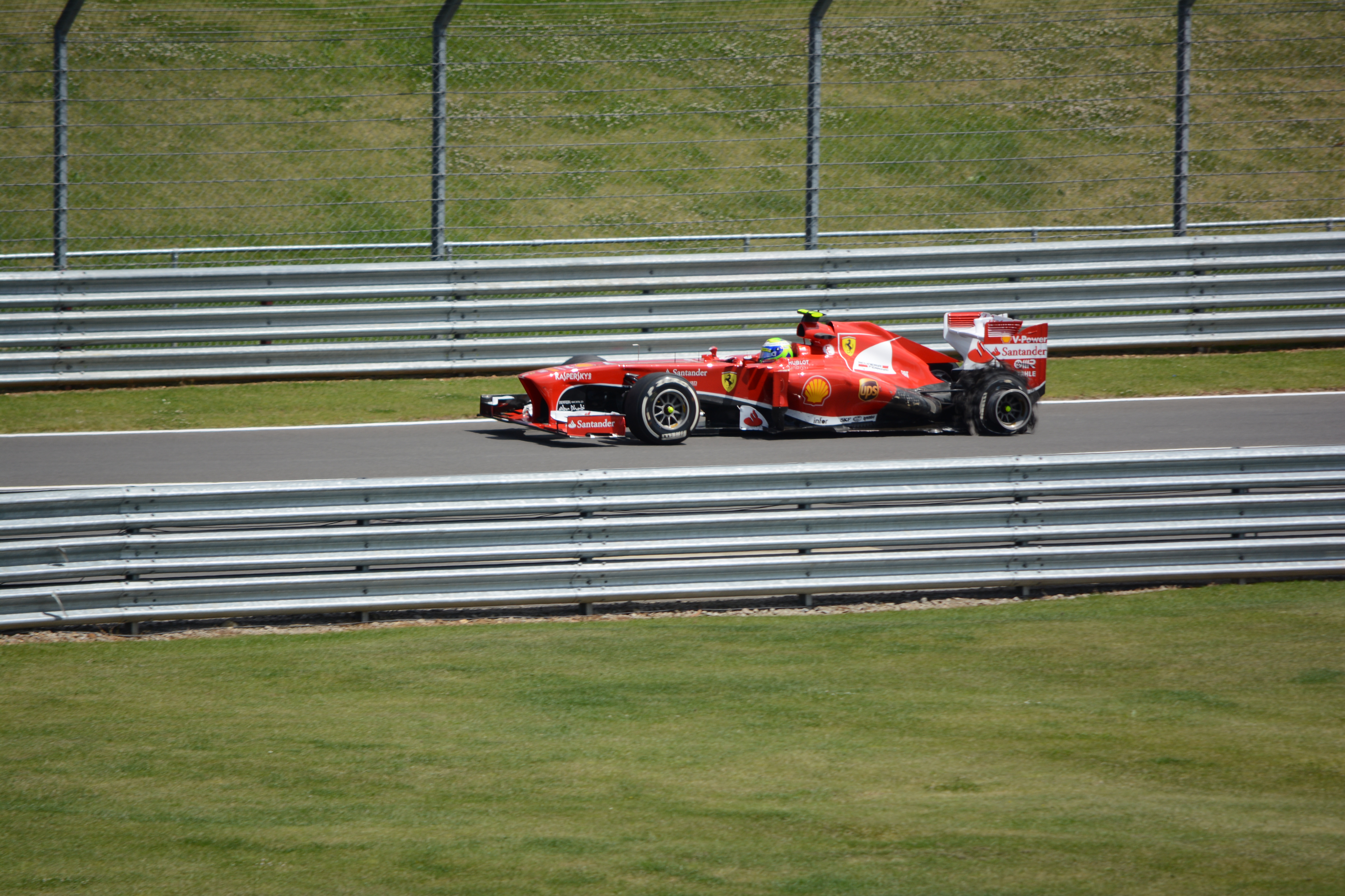 Felipe Massa (Ferrari) at the 2013 British Grand Prix.